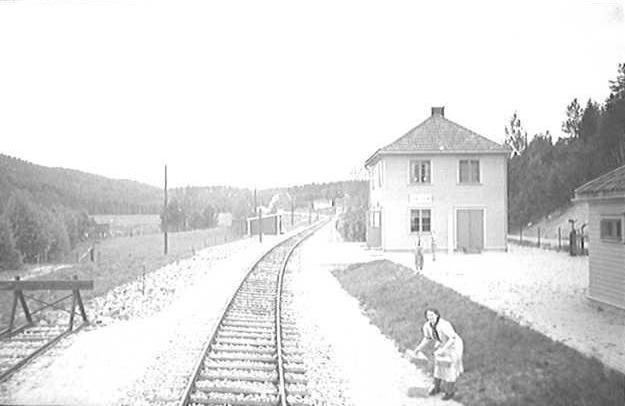 Gauslå Station in Birkenes, Norway, on the Sørland Line